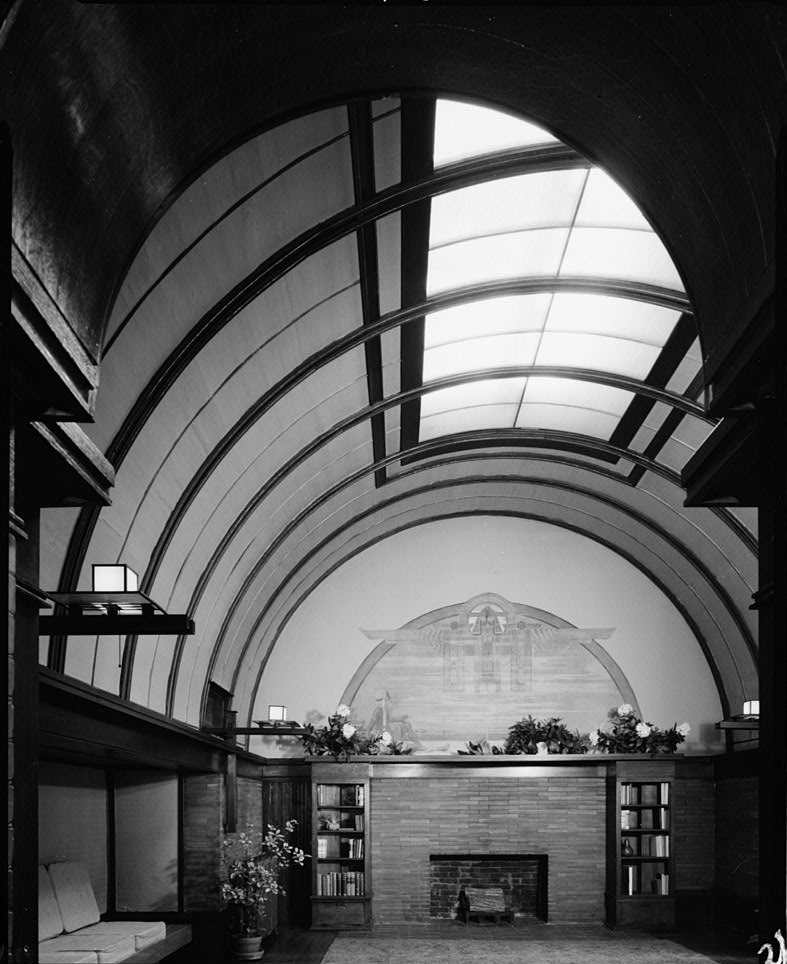 Frank Lloyd Wright Home and Studio